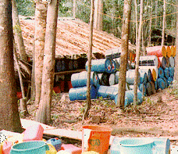 Image of Tranquilandia cocaine complex in Colombia